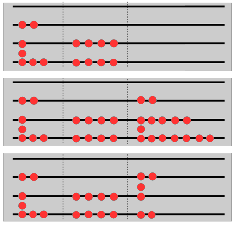 The addition 218 + 44 = 262 on a counting table